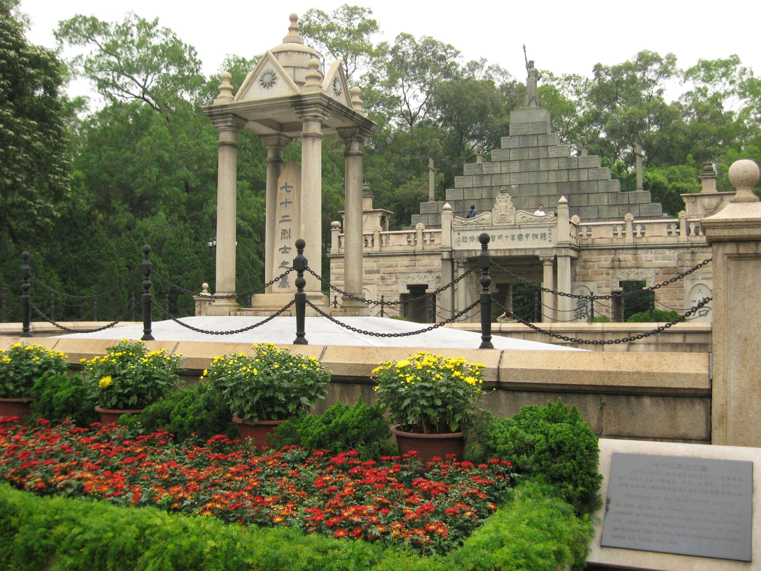 Huanghuagang, The Yellow Flower Mound Mausoleum of the 72 Martyrs identified after the 1911 Second Guangzhou Uprising against the Qing 中文（香港）: 黃花崗七十二烈士墓